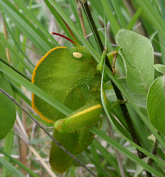 Hooded Grasshopper Teratodes monticollis at Pocharam lake, Andhra Pradesh, India.